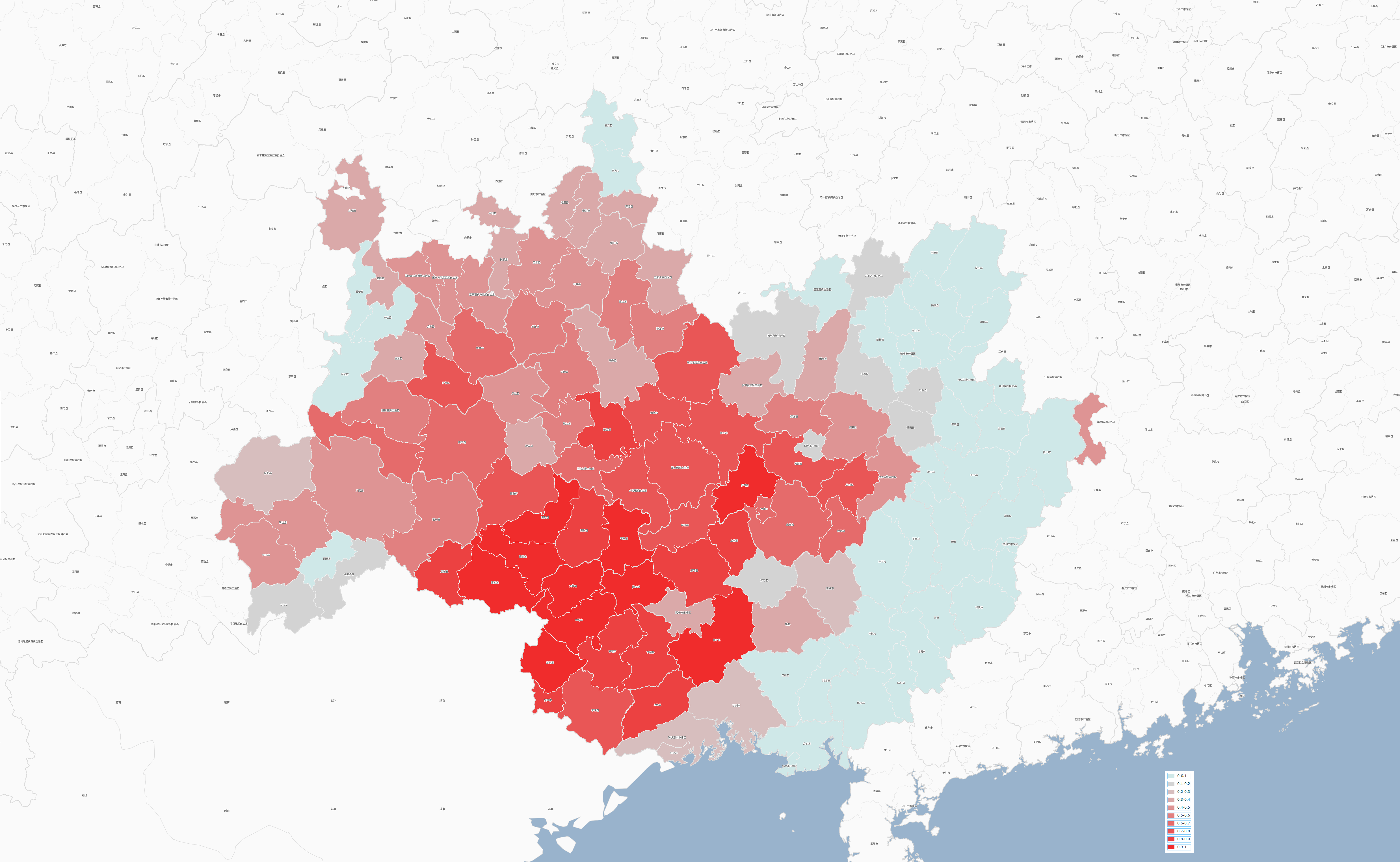 This is a cropped version of 僚人分布图3.png